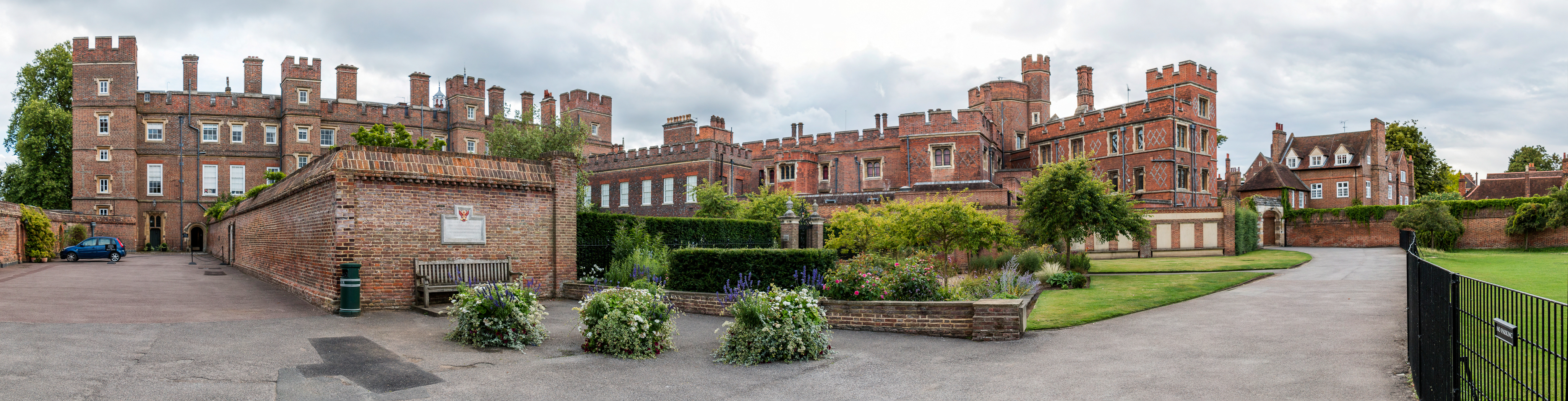 Eton College Provost's Garden